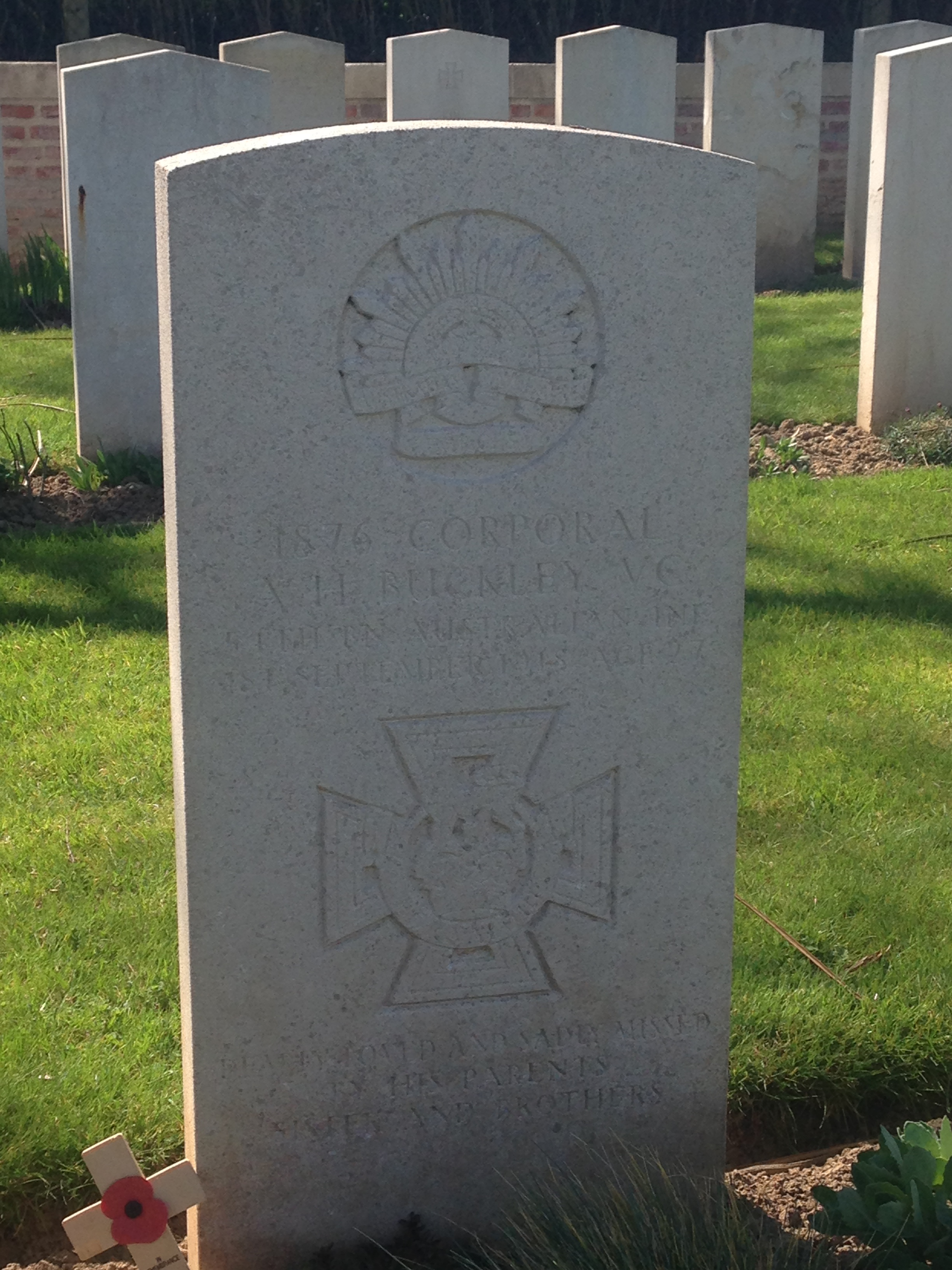 Headstone